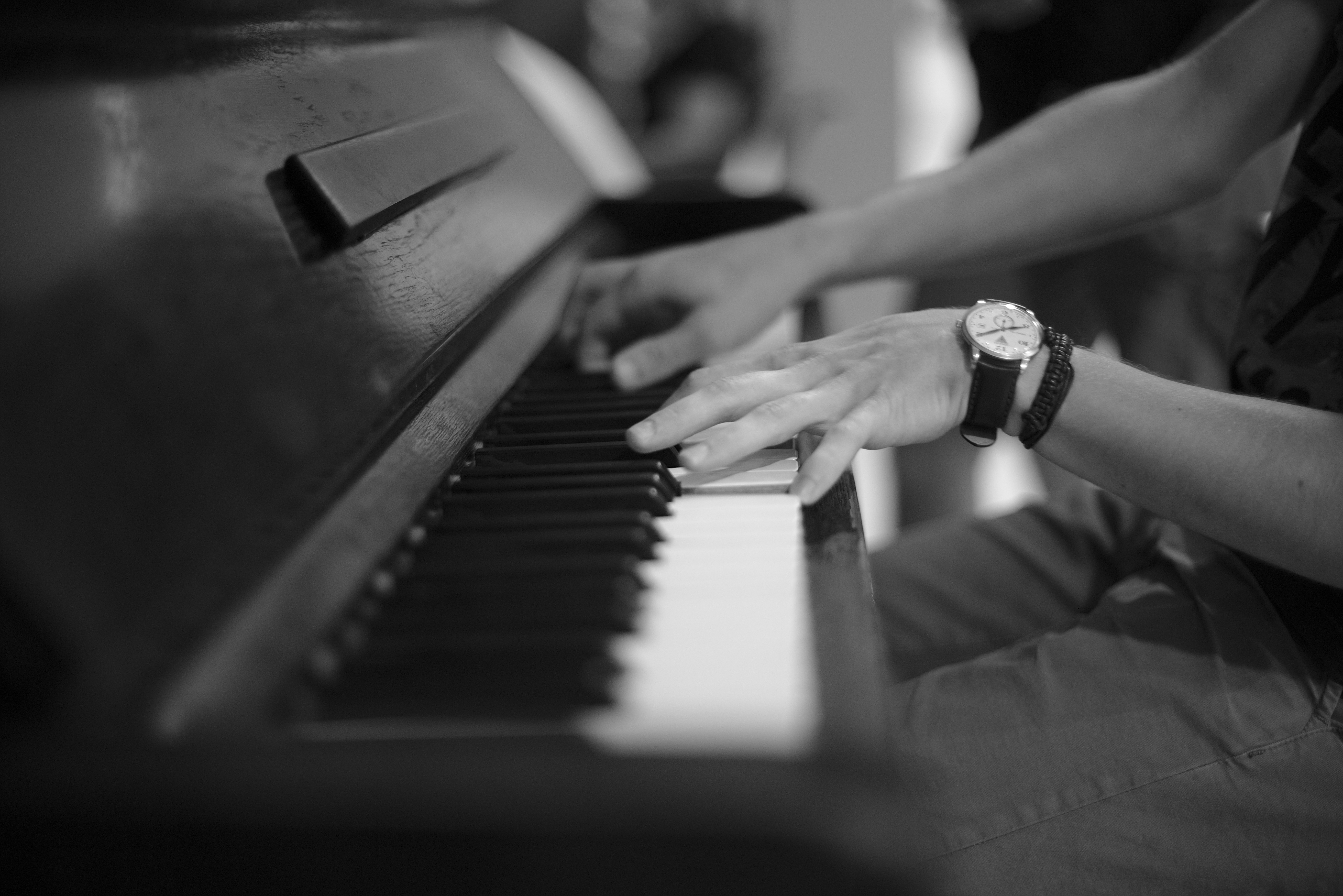 Man plays piano in Prague's Airport. Part of Czech project "Pianos on the Street".